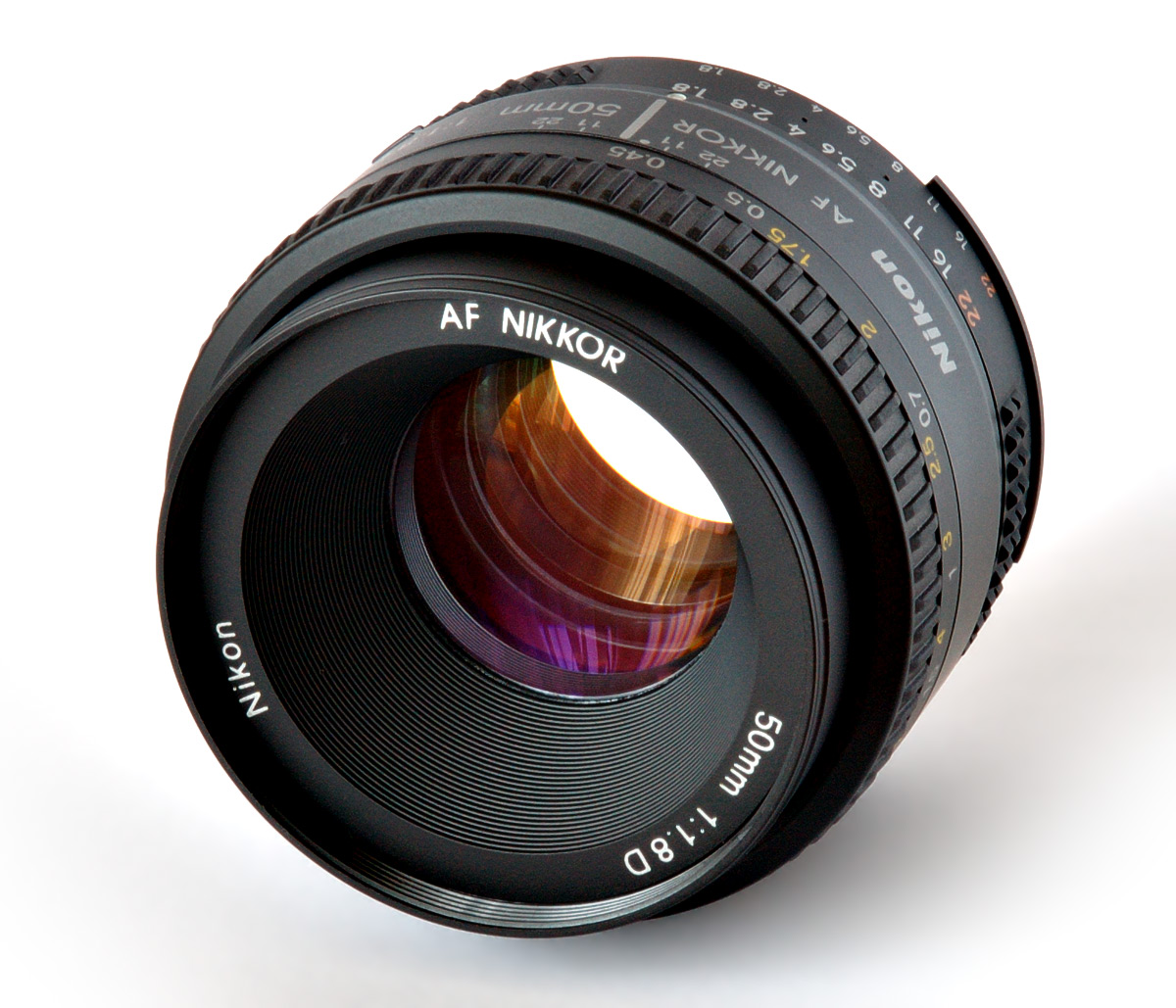 This image shows a "Nikon Nikkor AF 50mm/1.8D" lens.